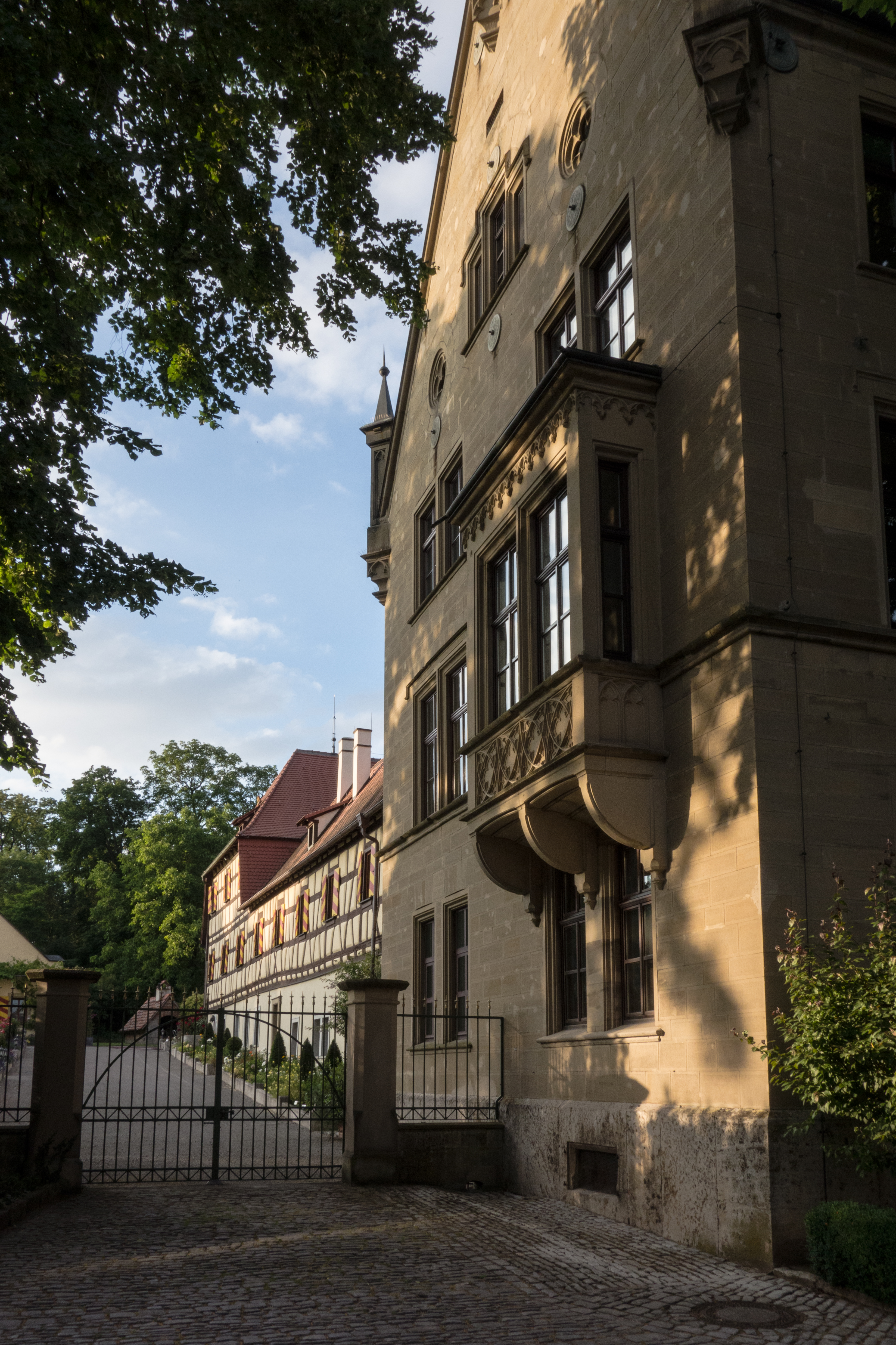 Einersheim Castle